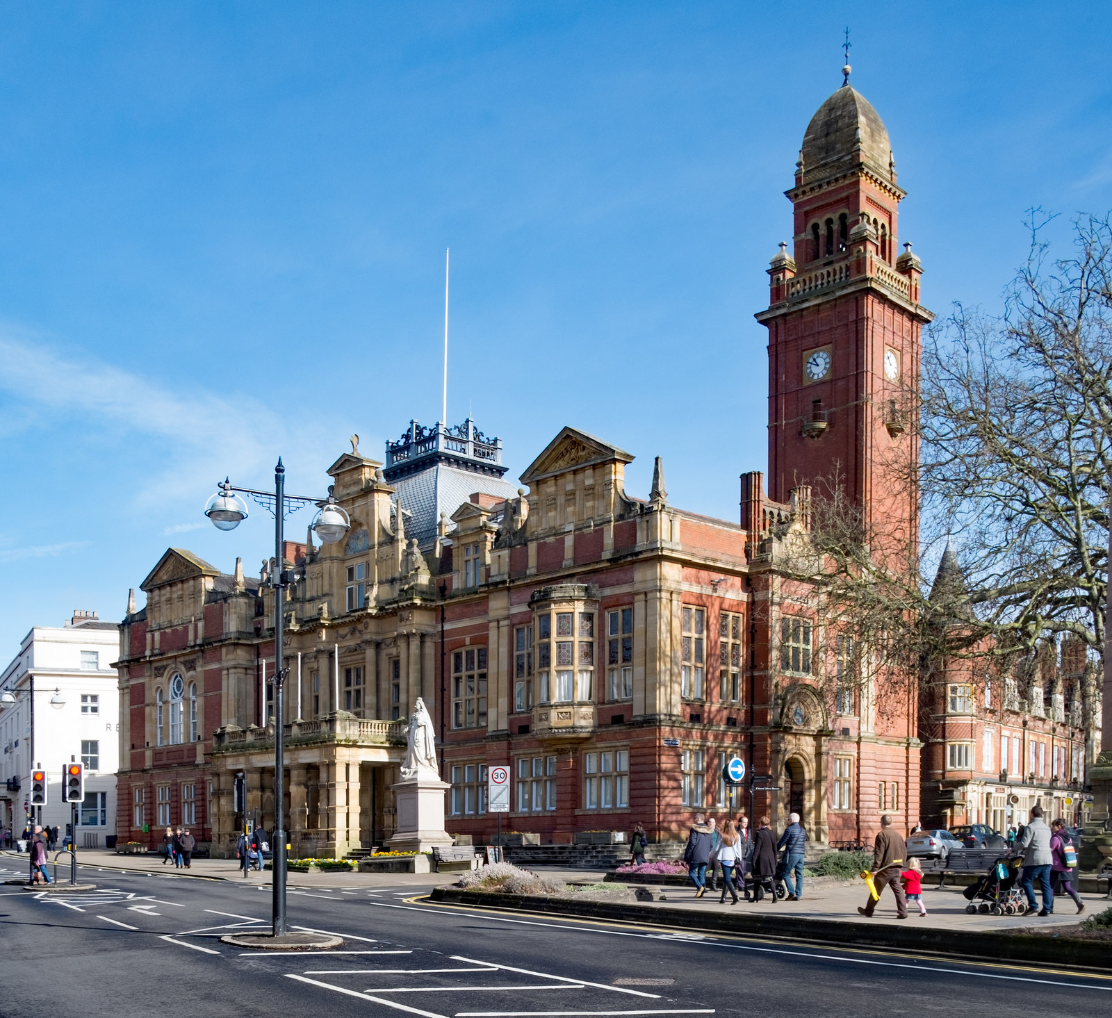 Leamington Town Hall Totally out of character with its environs, Leamington Town Hall was built between 1882 and 1884 to the designs of architect John Cundall. Grade II listed